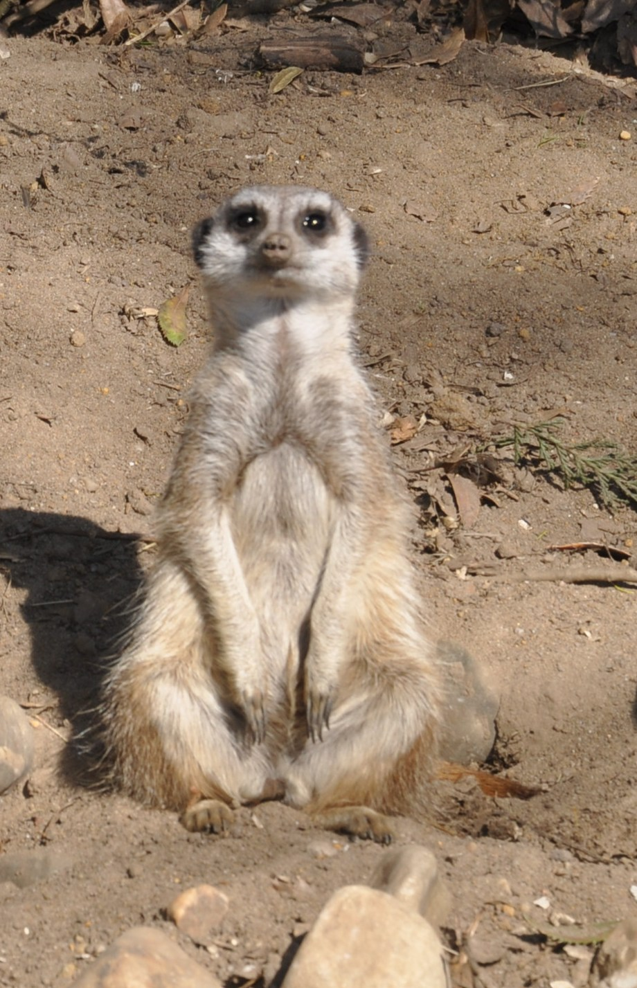 Guenon in zoo Epe